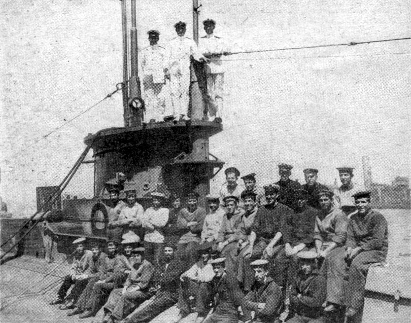 The crew of British submarine E11 following their first tour of the Sea of Marmara in 1915. Caption reads: :The hero-crew of H.M. Submarine E11, with their officers, including Lieutenant Commander M. E. Nasmith, V.C., on the conning-tower. These men achieved with their submarine what is probably the most recklessly clever exploit of under-sea warfare, and succeeded in giving the German-trained Turks one of the biggest frights they have yet had. The officers and crew have been honoured for their gallantry.